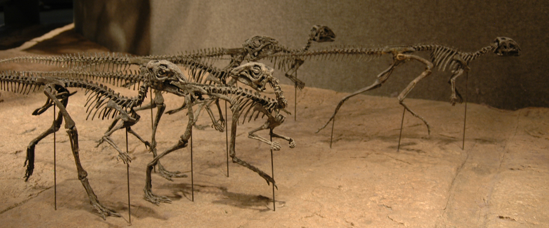 A herd of Othnielosaurus scampering at the Denver Museum of Nature and Science. Photograph taken in 2007.